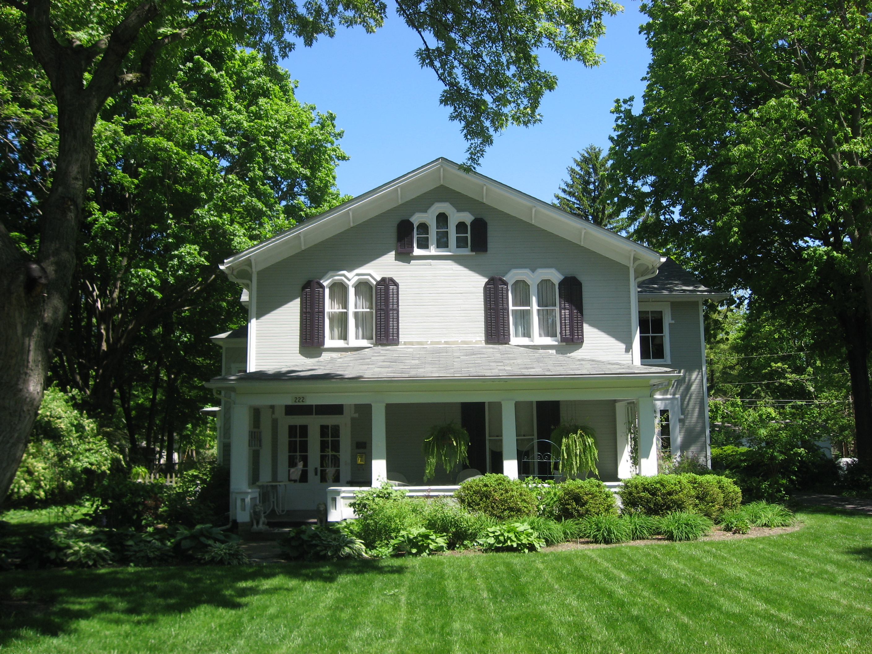 Front of the Richards-Sewall House, located at 222 College Street in Urbana, Ohio, United States. Built in 1853, it is listed on the National Register of Historic Places.